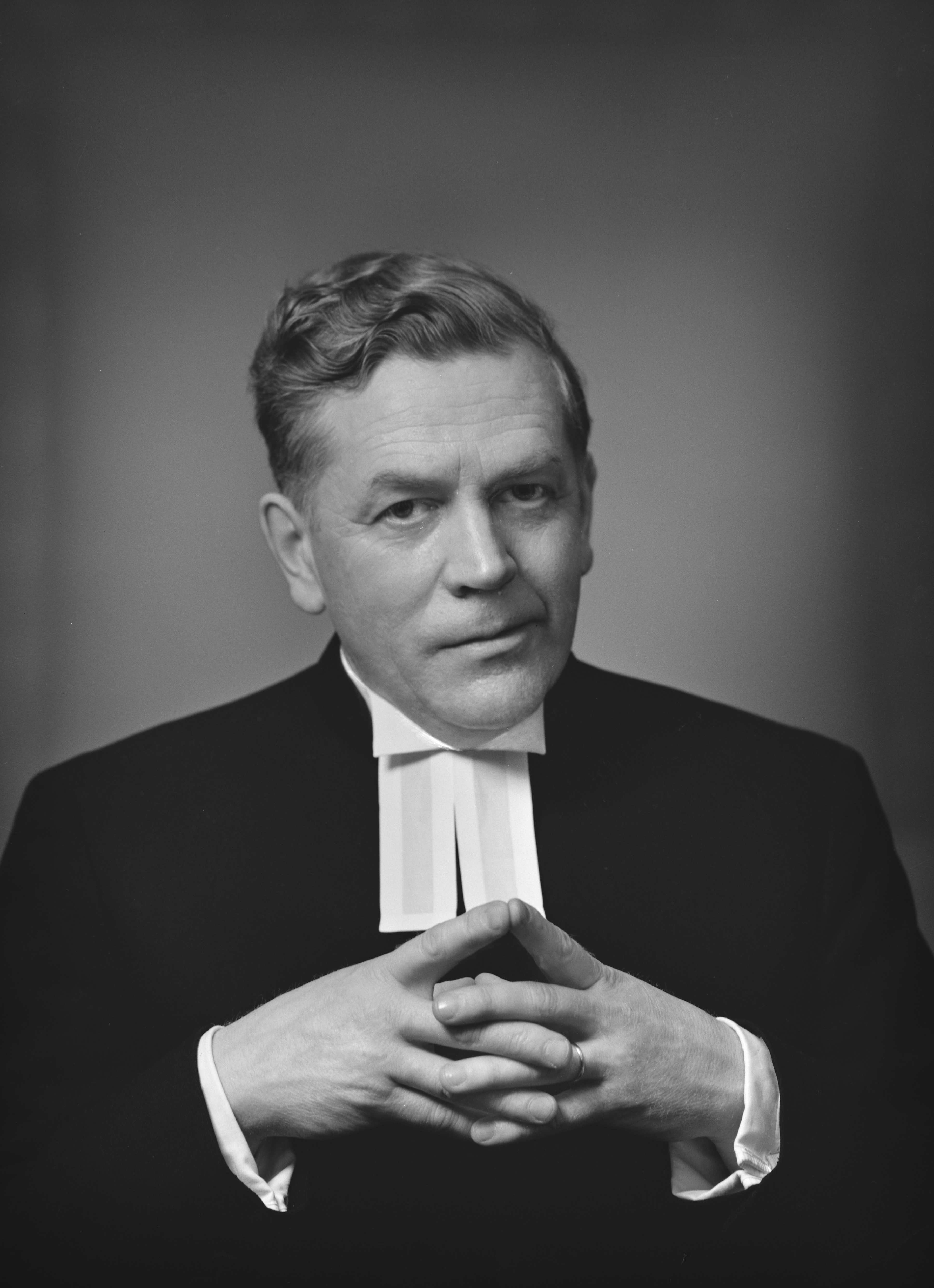 Photograph of the Finnish priest and politician Olavi Päivänsalo (1916–1984).